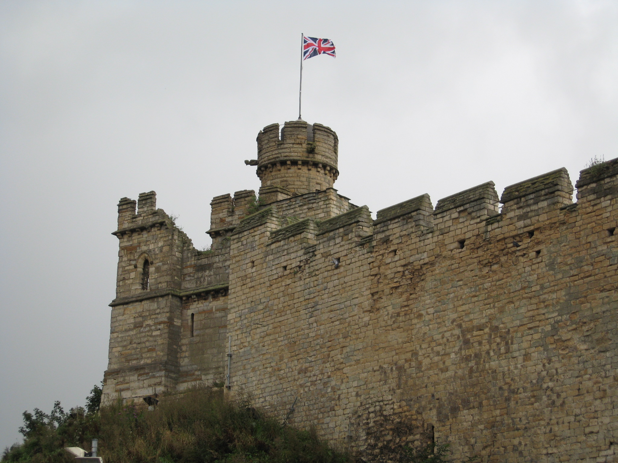 A view of the obserwatory tower of Lincoln Castle.